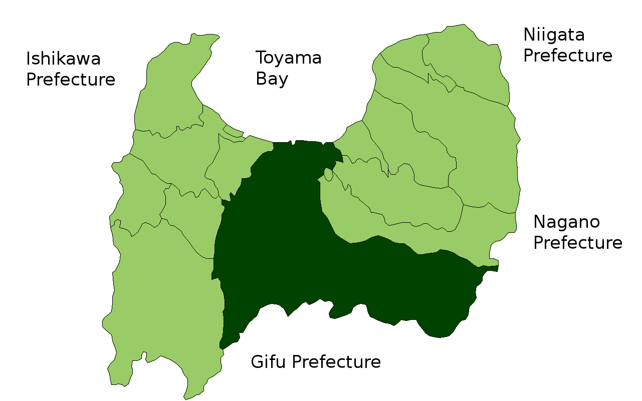 Location Map of Toyama in Toyama Prefecture, Japan